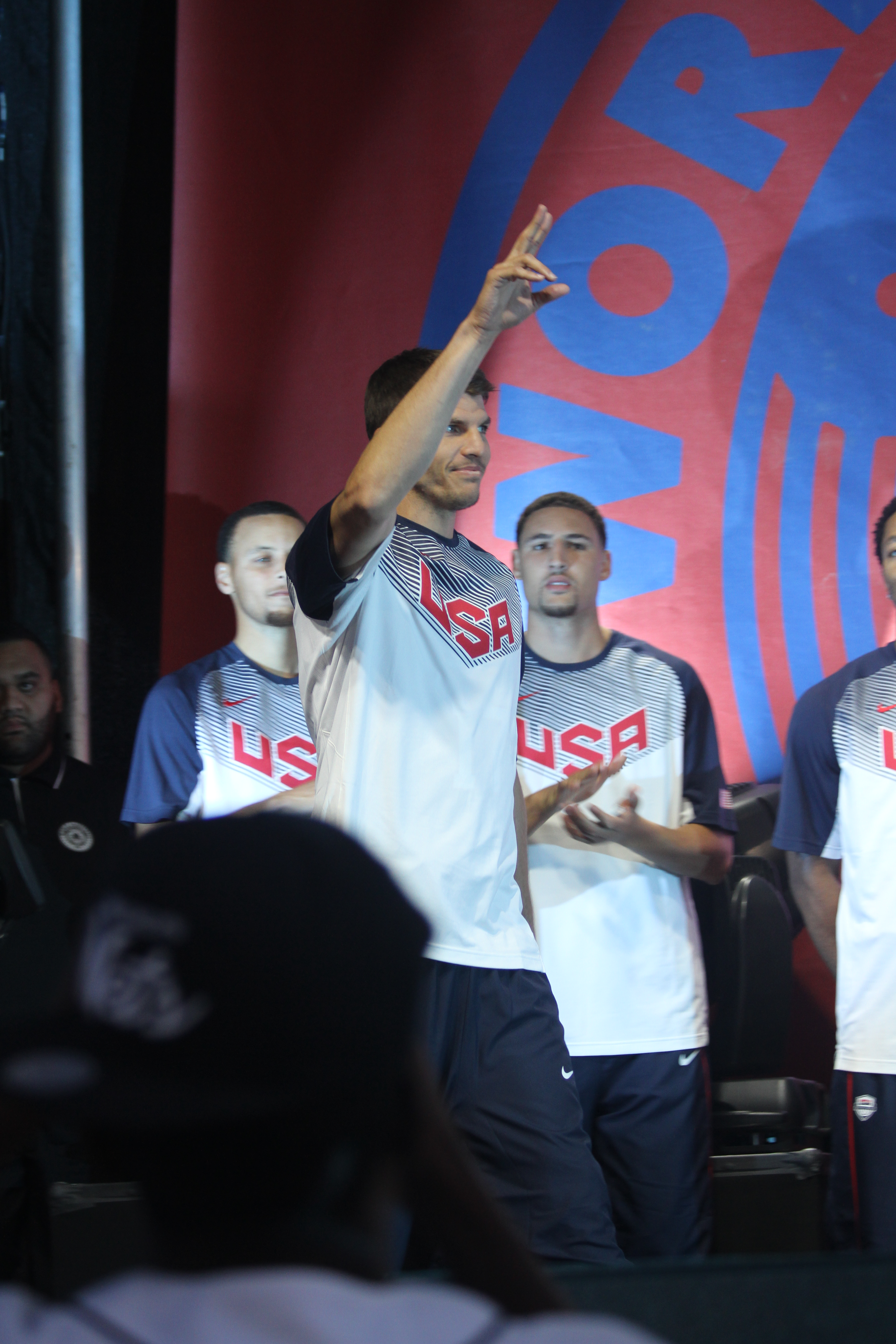 Kyle Korver at 2014 World Basketball Festival at 63rd Street Beach in Chicago